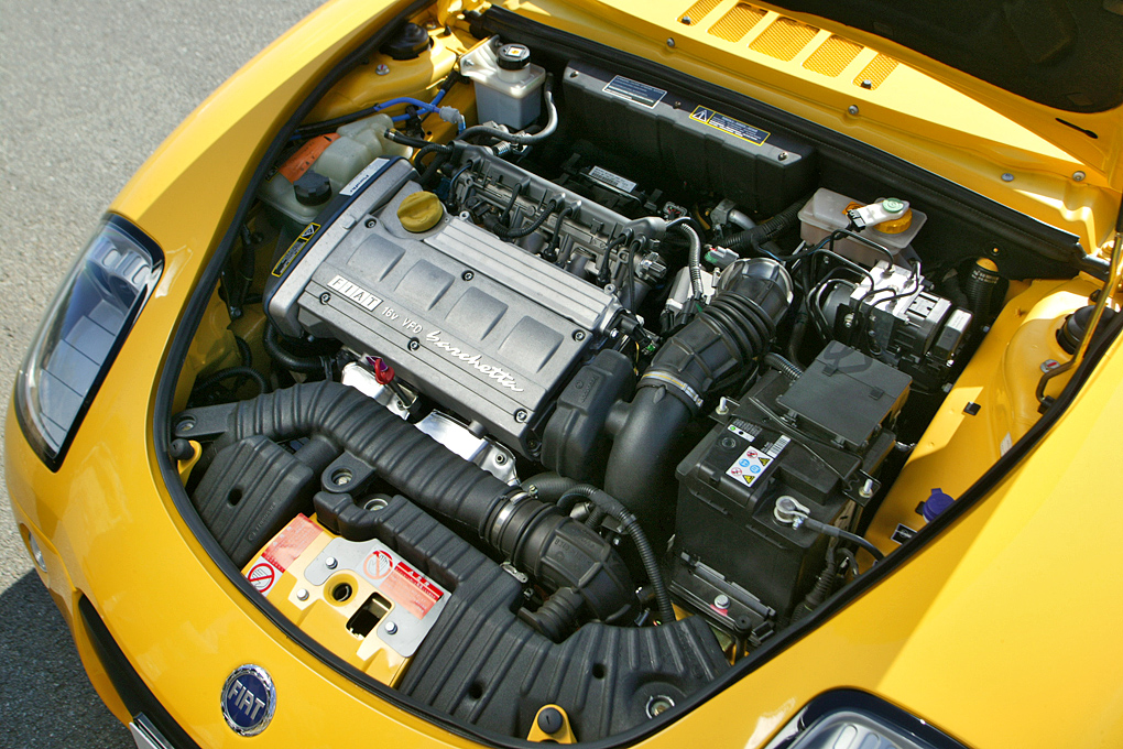 Engine bay of Fiat Barchetta